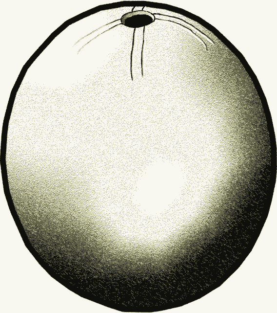 A bottle made in a ostrich egg, dates from Capsian culture (Mesolithic-Neolithic of Maghreb)